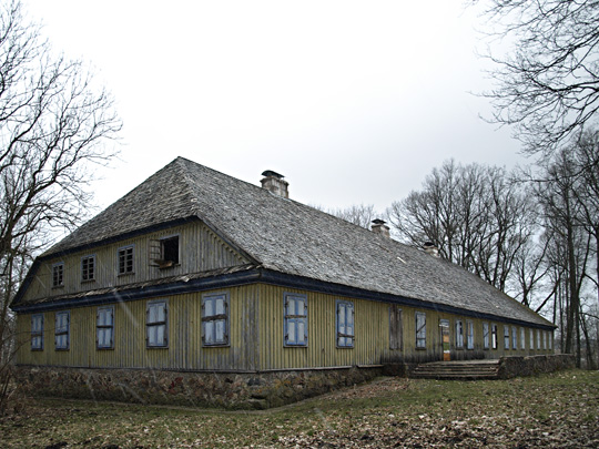 Šateikiai Manor